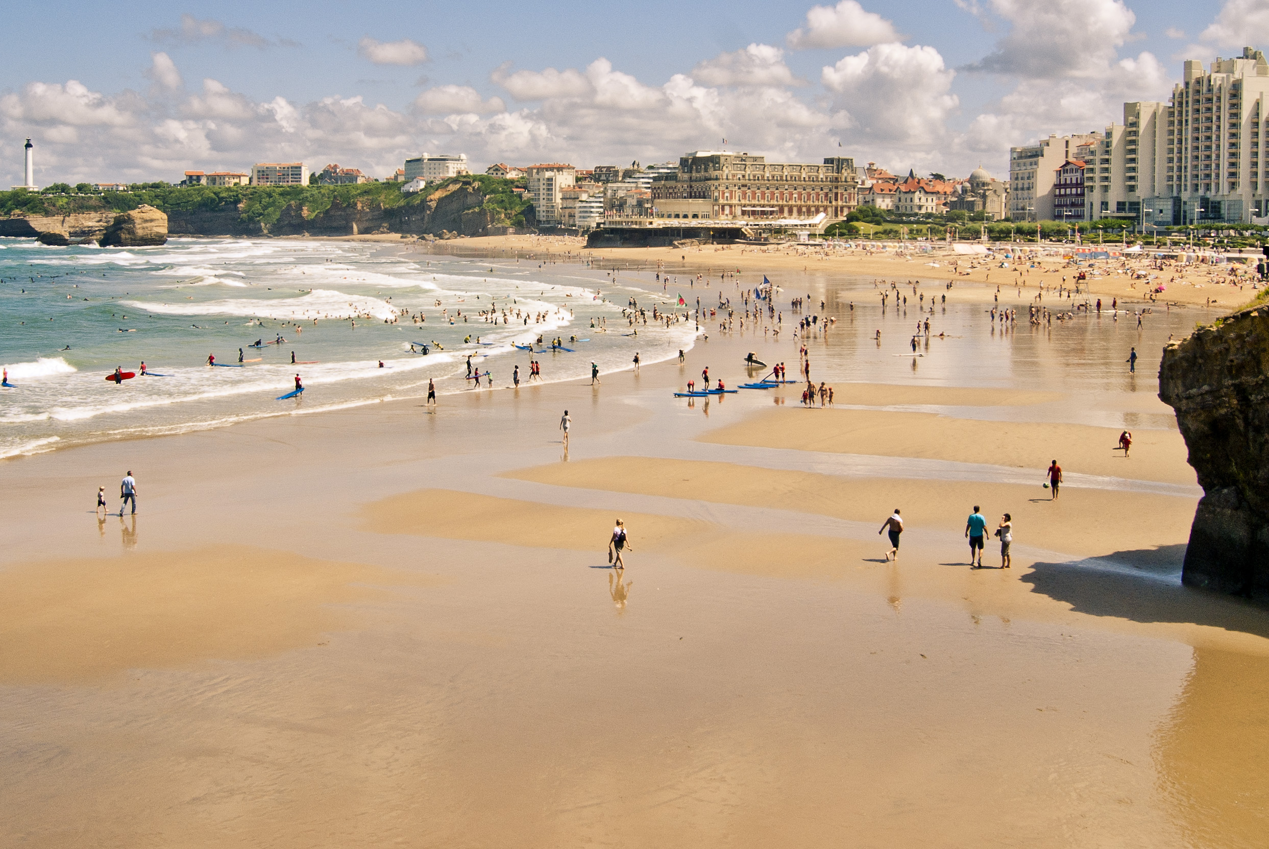 Biarritz José Sáez SONY DSC